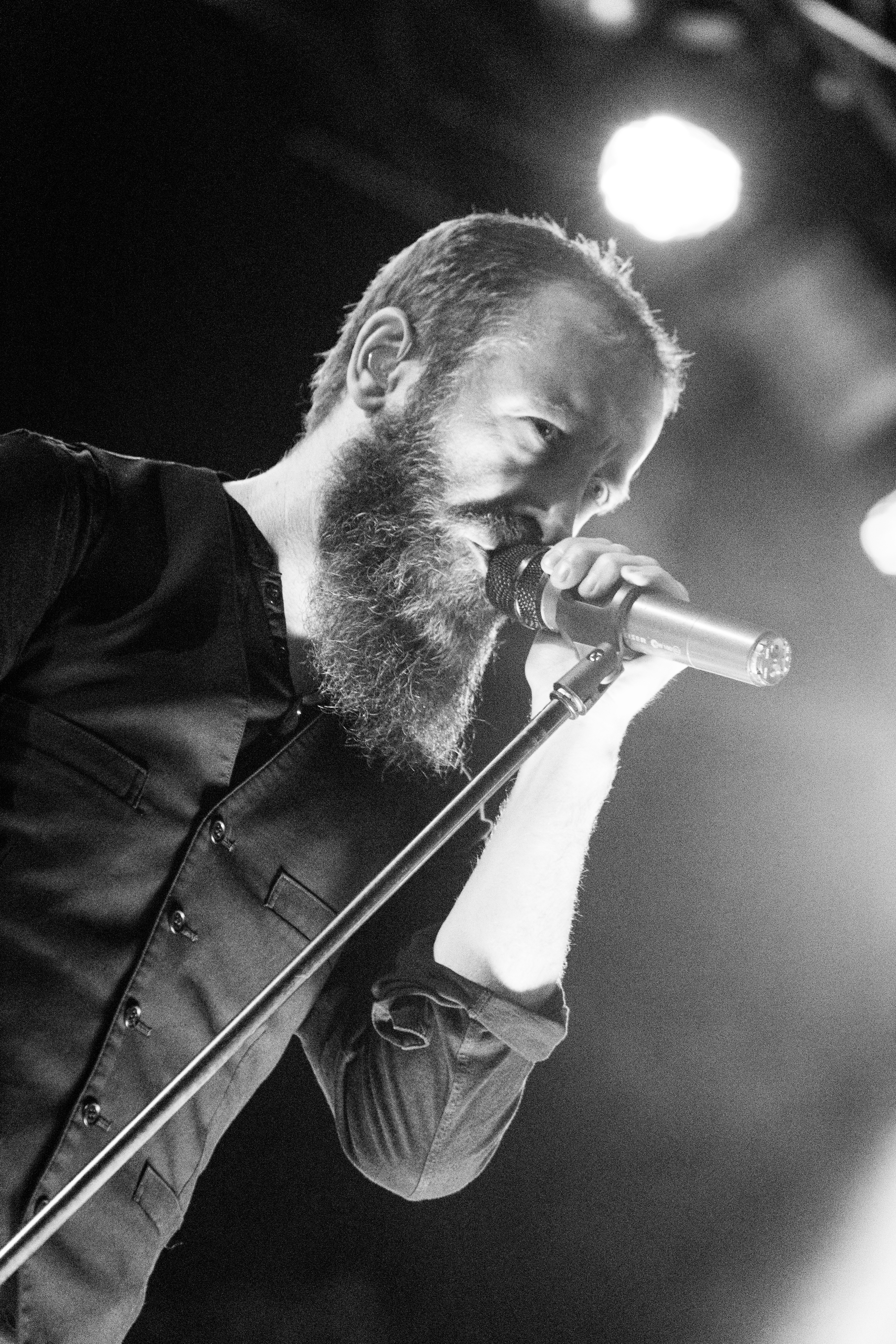 Paradise Lost performing live at Turock Open Air, Essen 2015